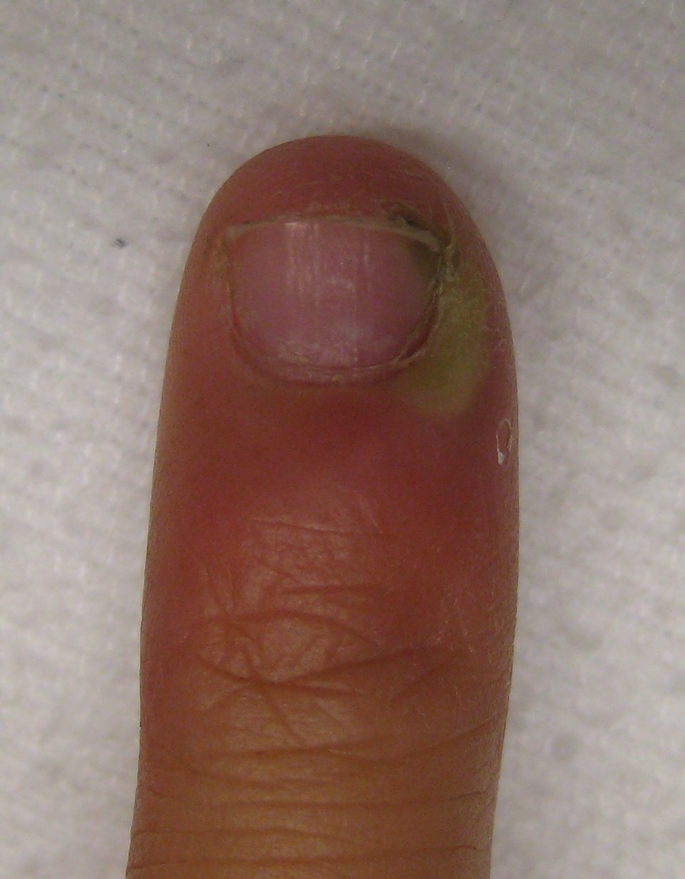 An infection of the cutical